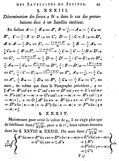 A page of the Essai sur la théorie des satellites de Jupiter by Bailly.